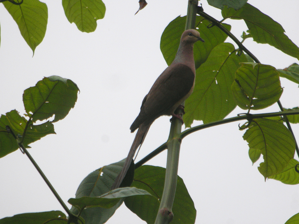 Slender-billed Cuckoo-dove Macropygia amboinensis